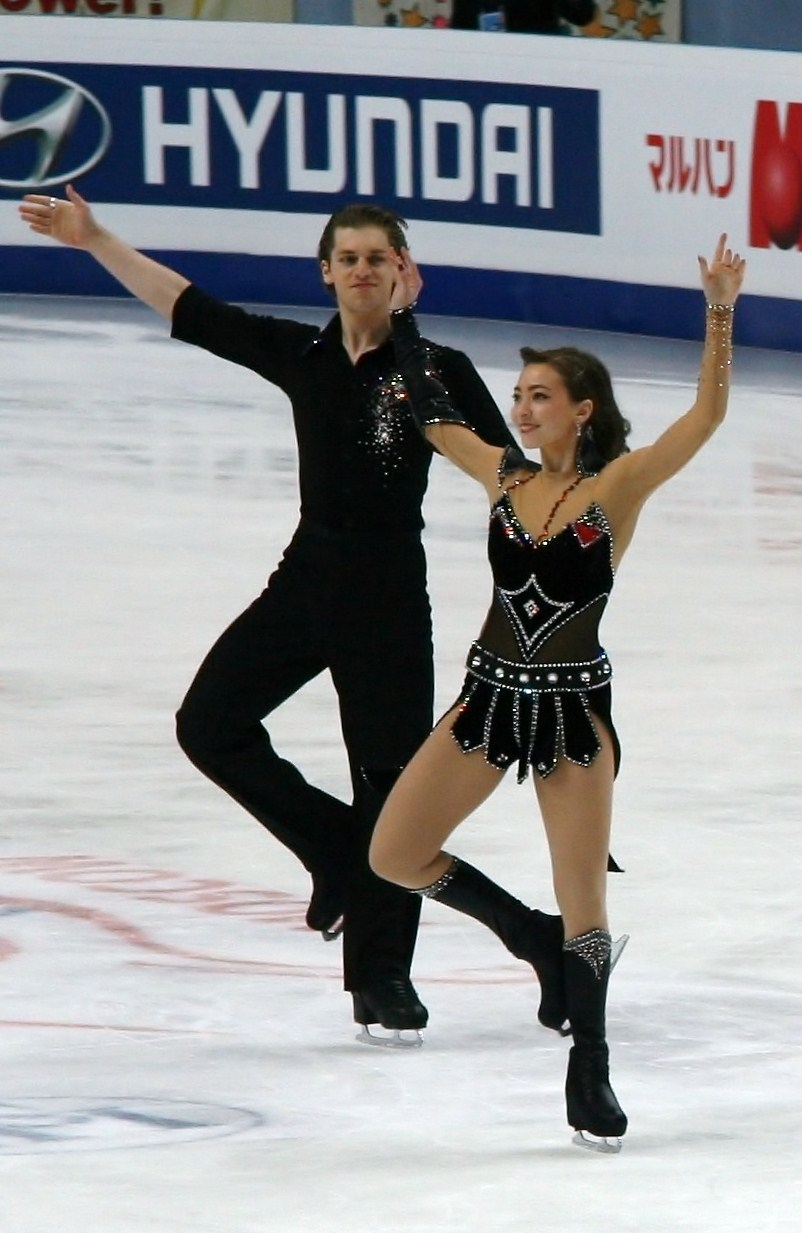 Allison Reed and Otar Japaridze at the 2011 World Figure Skating Championships